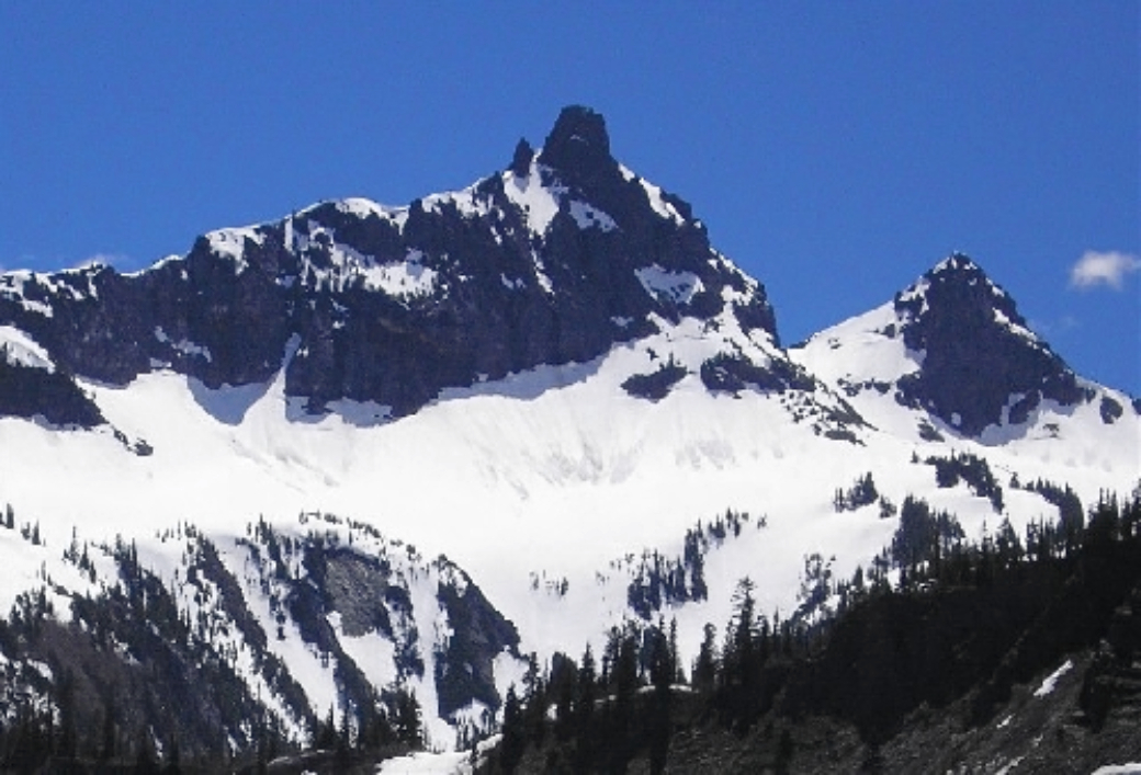 Unicorn Peak in Mount Rainier National Park, seen from road.